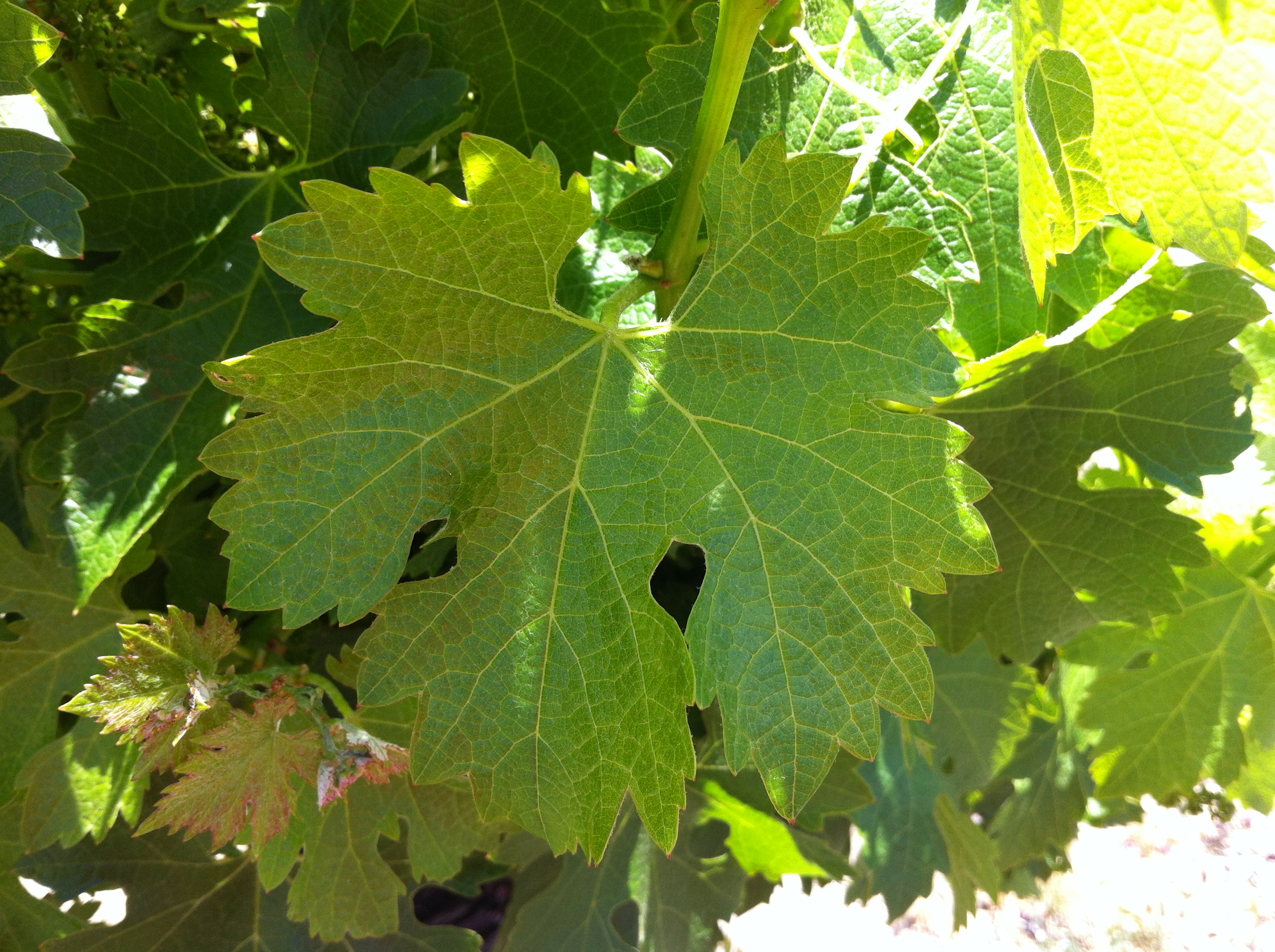 Petite Sirah leaf at Concannon vineyards in the Livermore Valley AVA of California